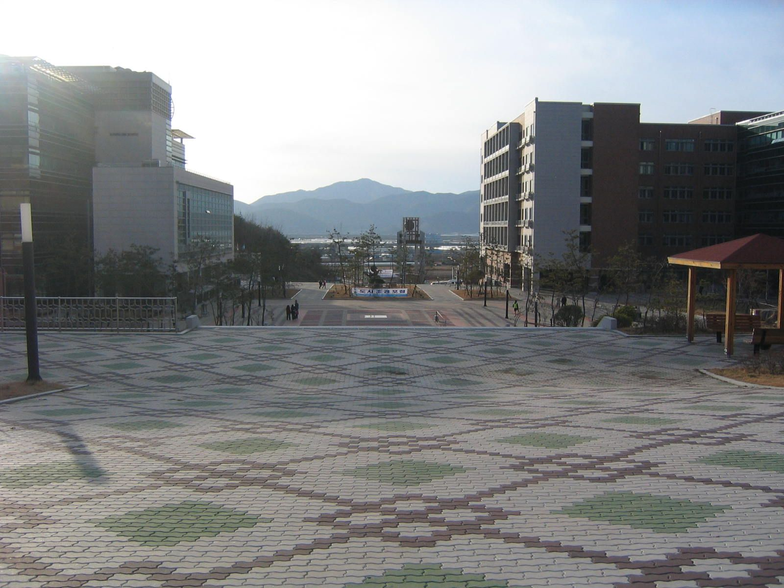 Main quad at the Miryang campus of Pusan National University.